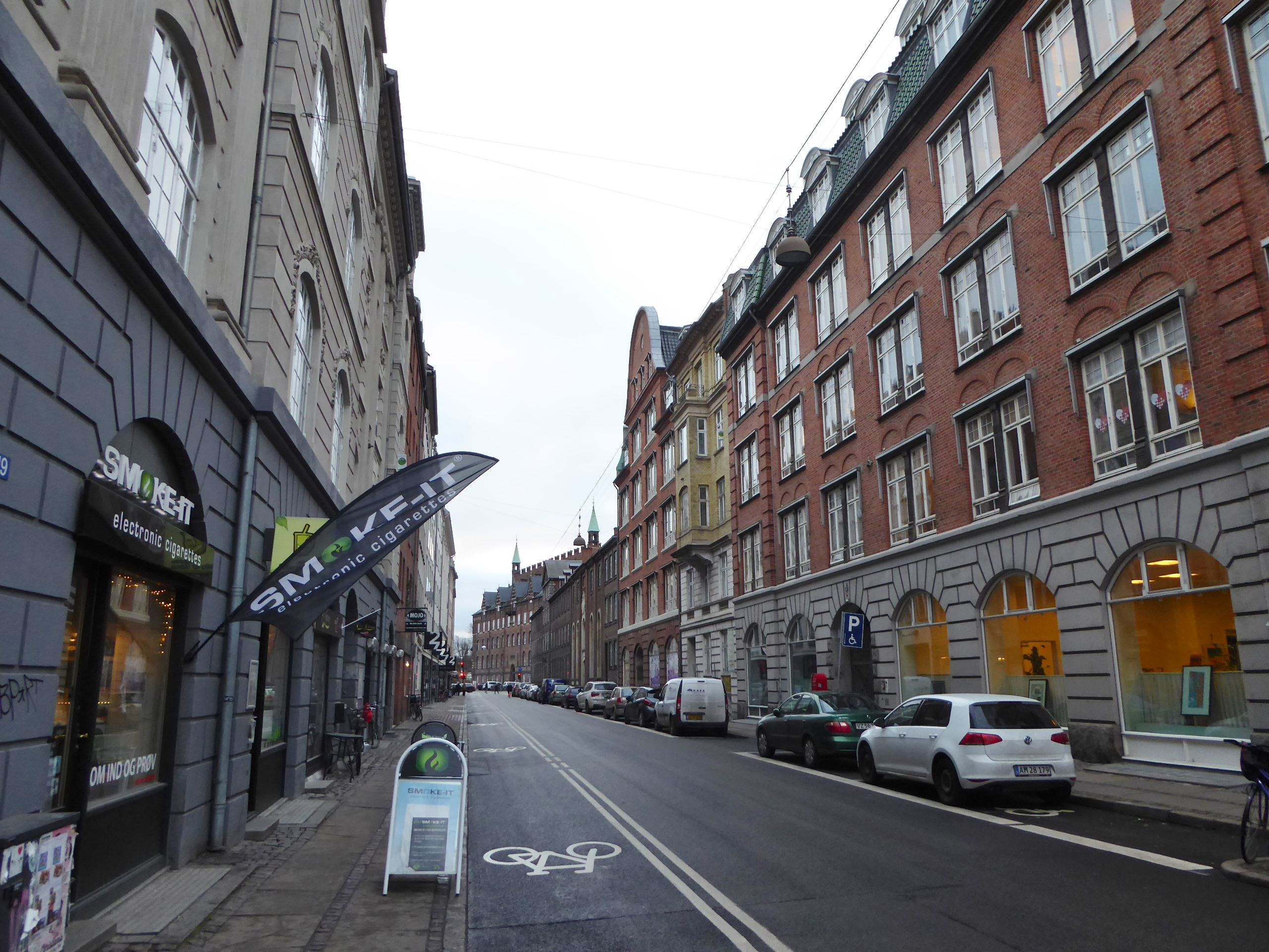 The street Løngangstræde in Indre By in Copenhagen.